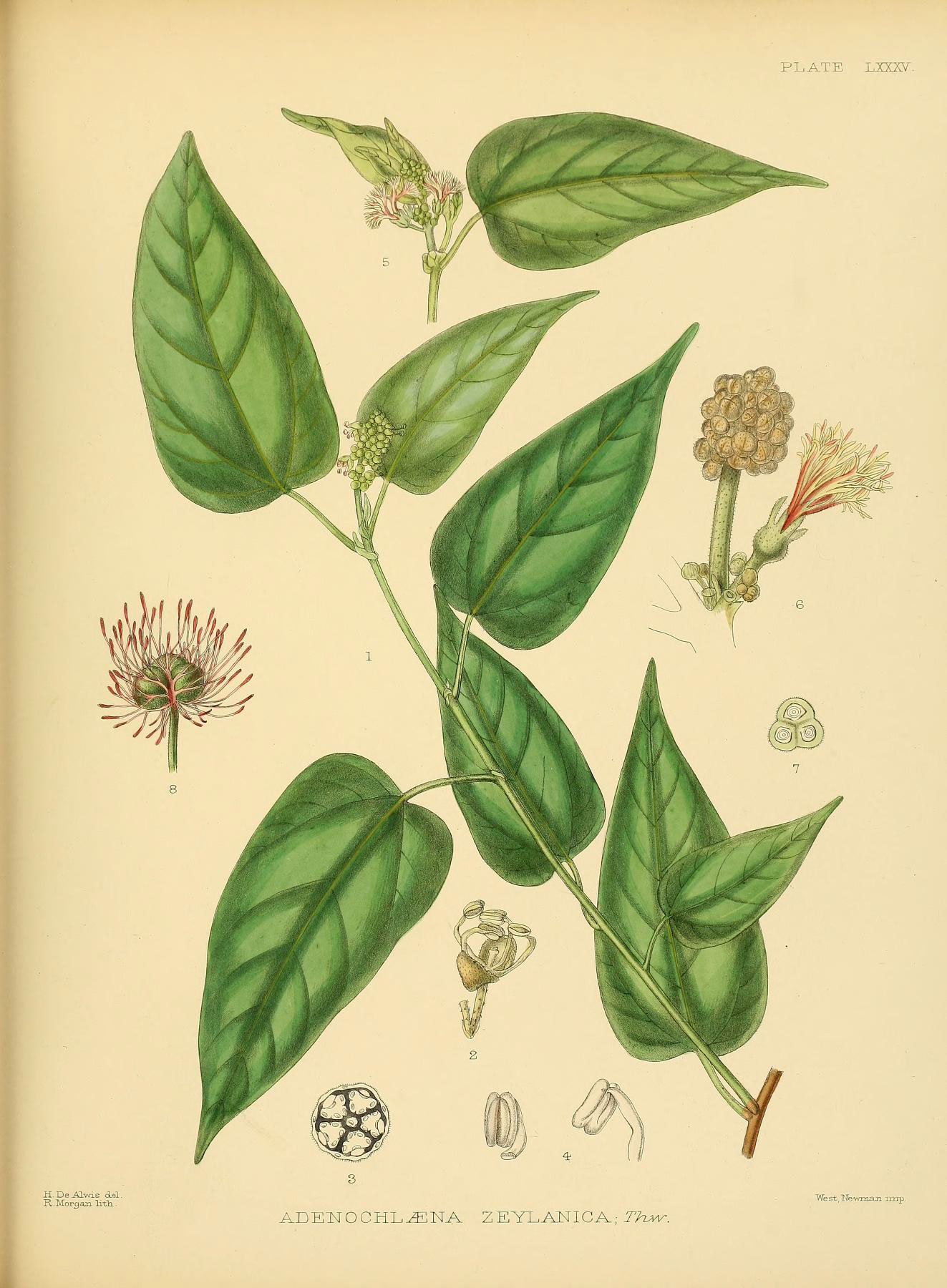 PLATE LXXXV. H.DeAl-wis del. R.. Morgan lifh.. ADEInTOCHL^NA ZEYLANIGA-TTw. "West.'Ne'wrnaji Trap.